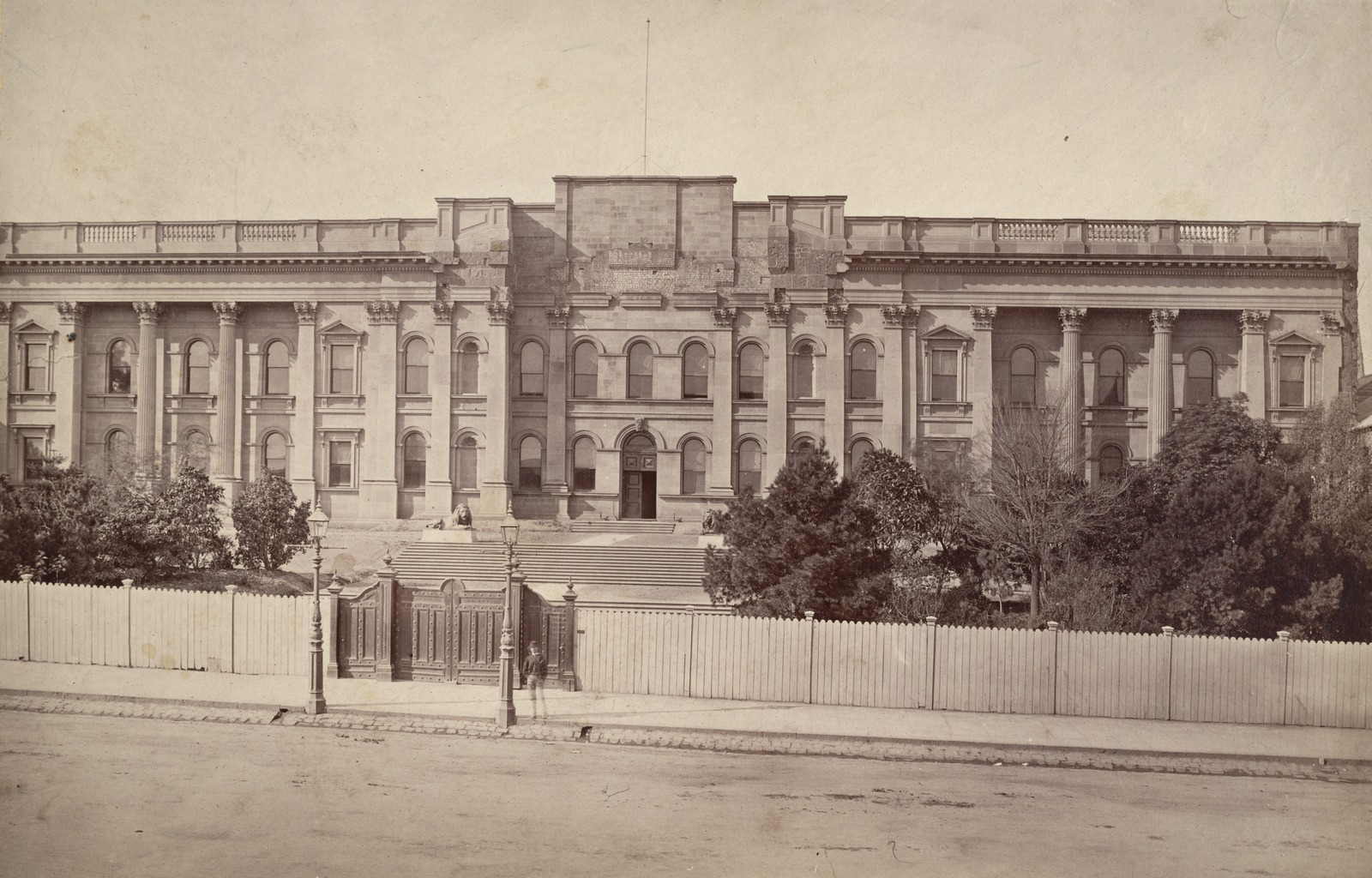 Library facade facing Swanston street, 1864-1870.